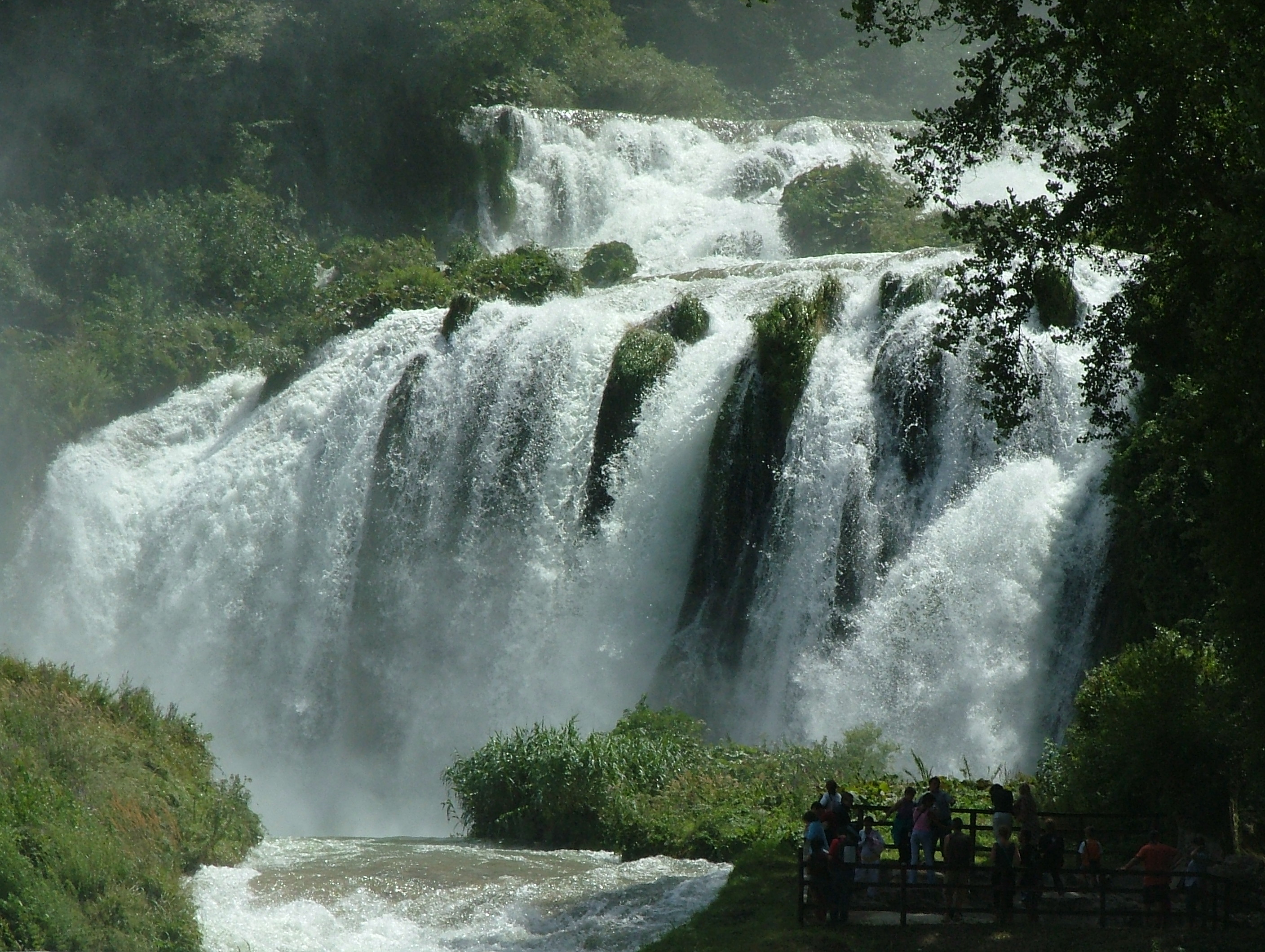 Cascata delle Marmore of the "Marmore Falls" in Umbria. Water is normally passed thru a hydroelectric powerplant but a couple of times a day, all water runs thru the falls.